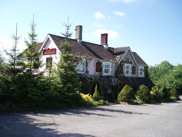 The Slab House Inn. This Inn dates back to the 15th century.